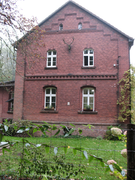 Sauen